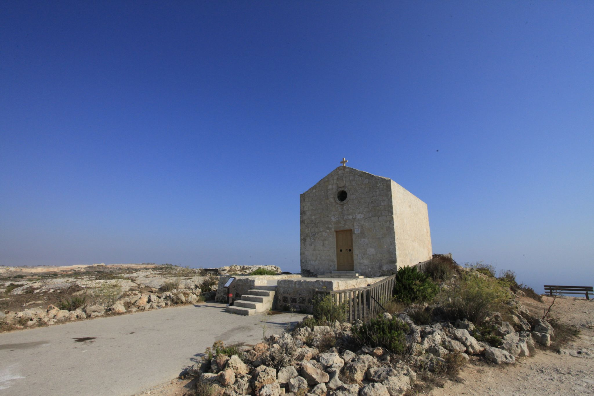 Chapel of Mary Magdalene at Dingli Cliffs